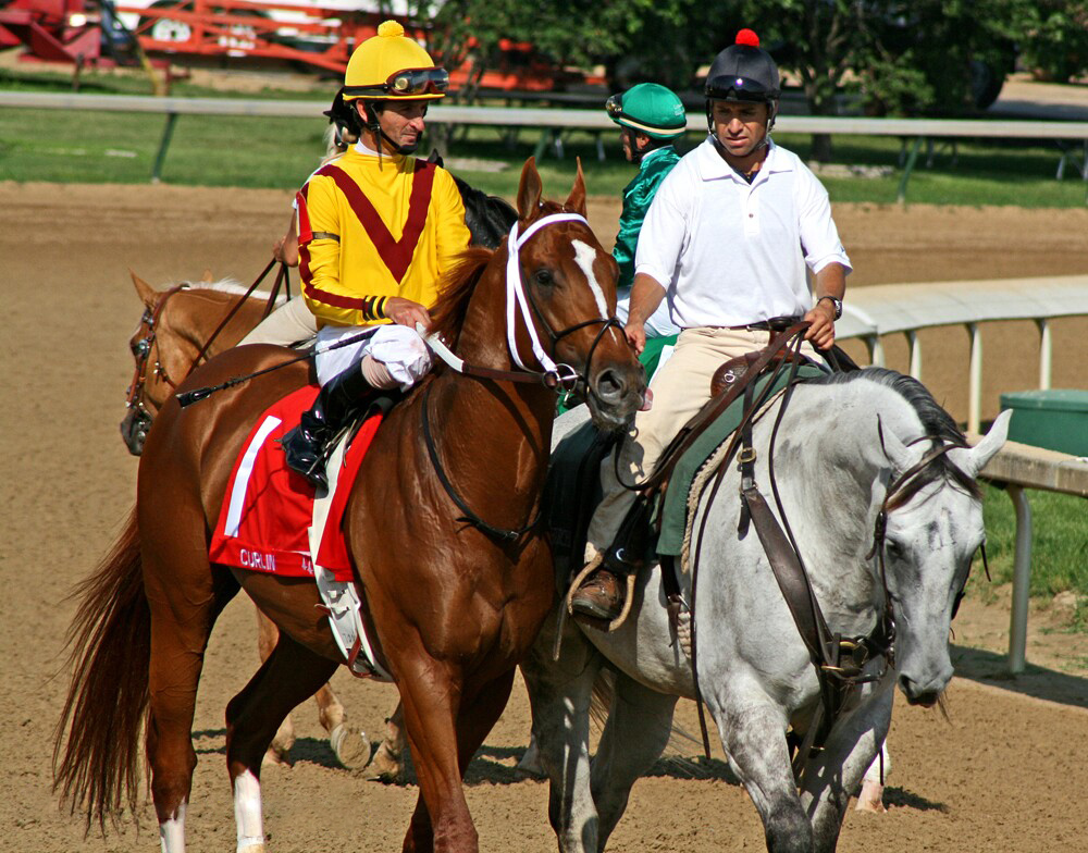 Image by Heather Abounader